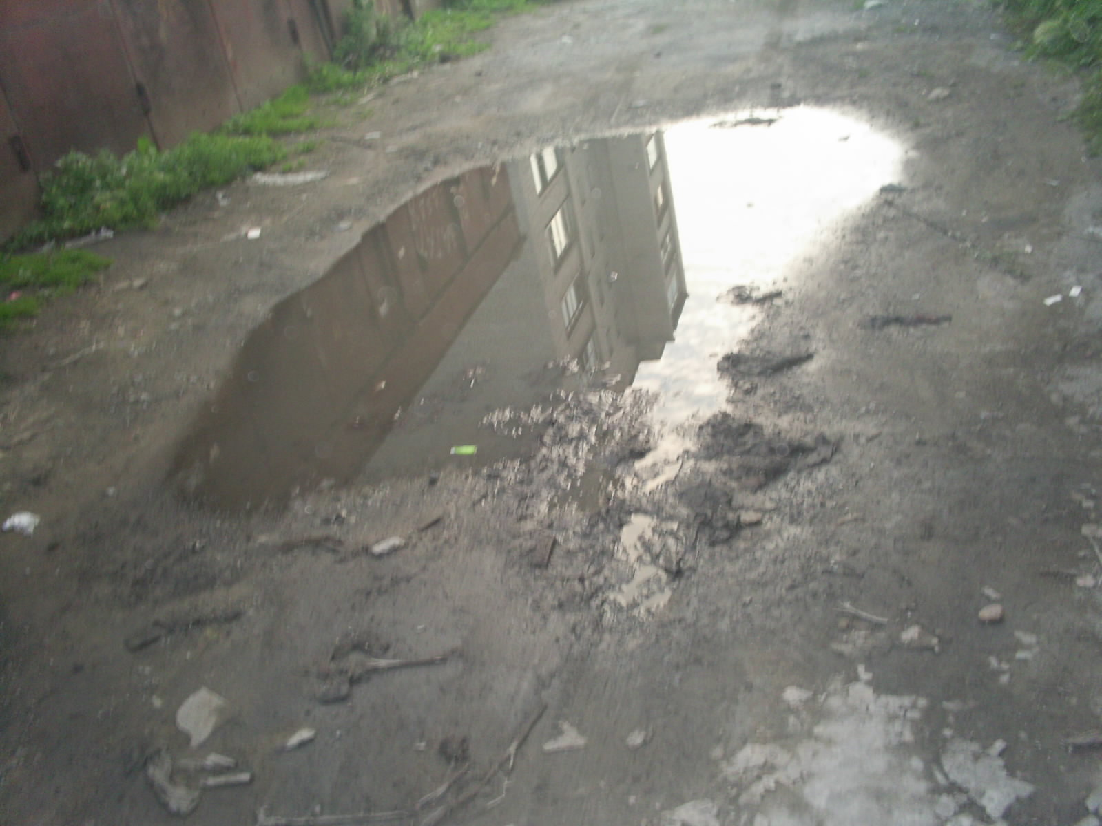 Puddle in Nakhodka, Russia, and reflection of garages and house. Samsung Digimax A502.